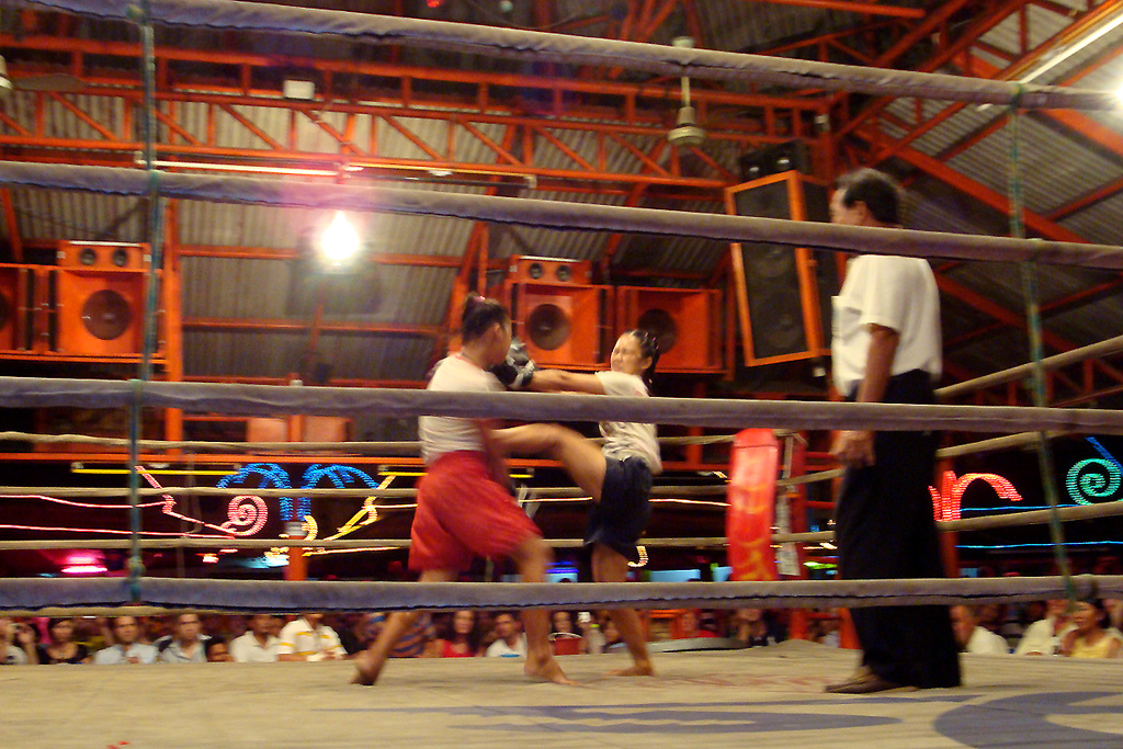 Muay Thai Lady Boxing at Lamai, Koh Samui, Thailand